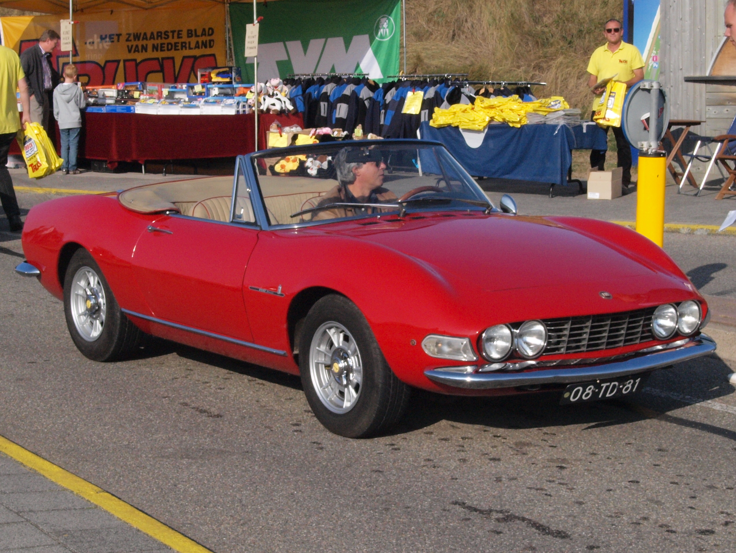 Photographed at the Nationaal Oldtimer Festival Zandvoort 2009, The Netherlands. OLYMPUS DIGITAL CAMERA